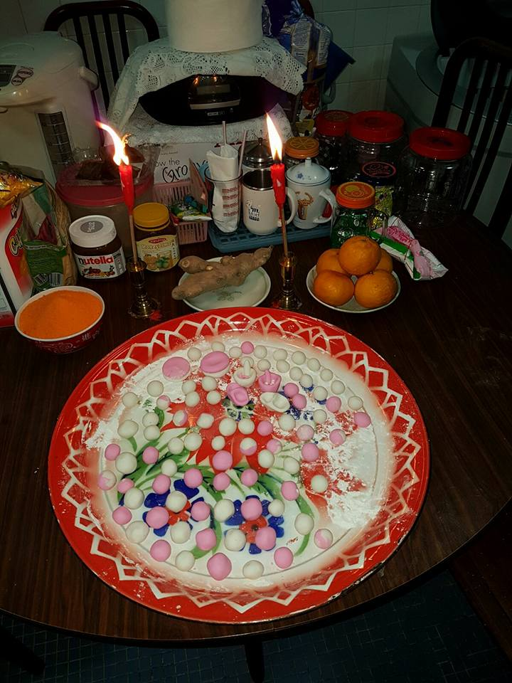 Heng Hwa dialect group preparing rice dumplings in Singapore during Winter Solstice.